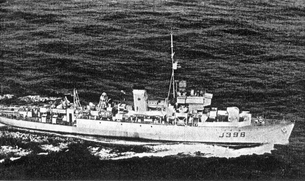 HMCS Fort Frances at sea ca. 1944 USE/REPRODUCTION: Restrictions on use/reproduction: Nil Copyright: Expired SOURCE: Photo scan from personal archives.